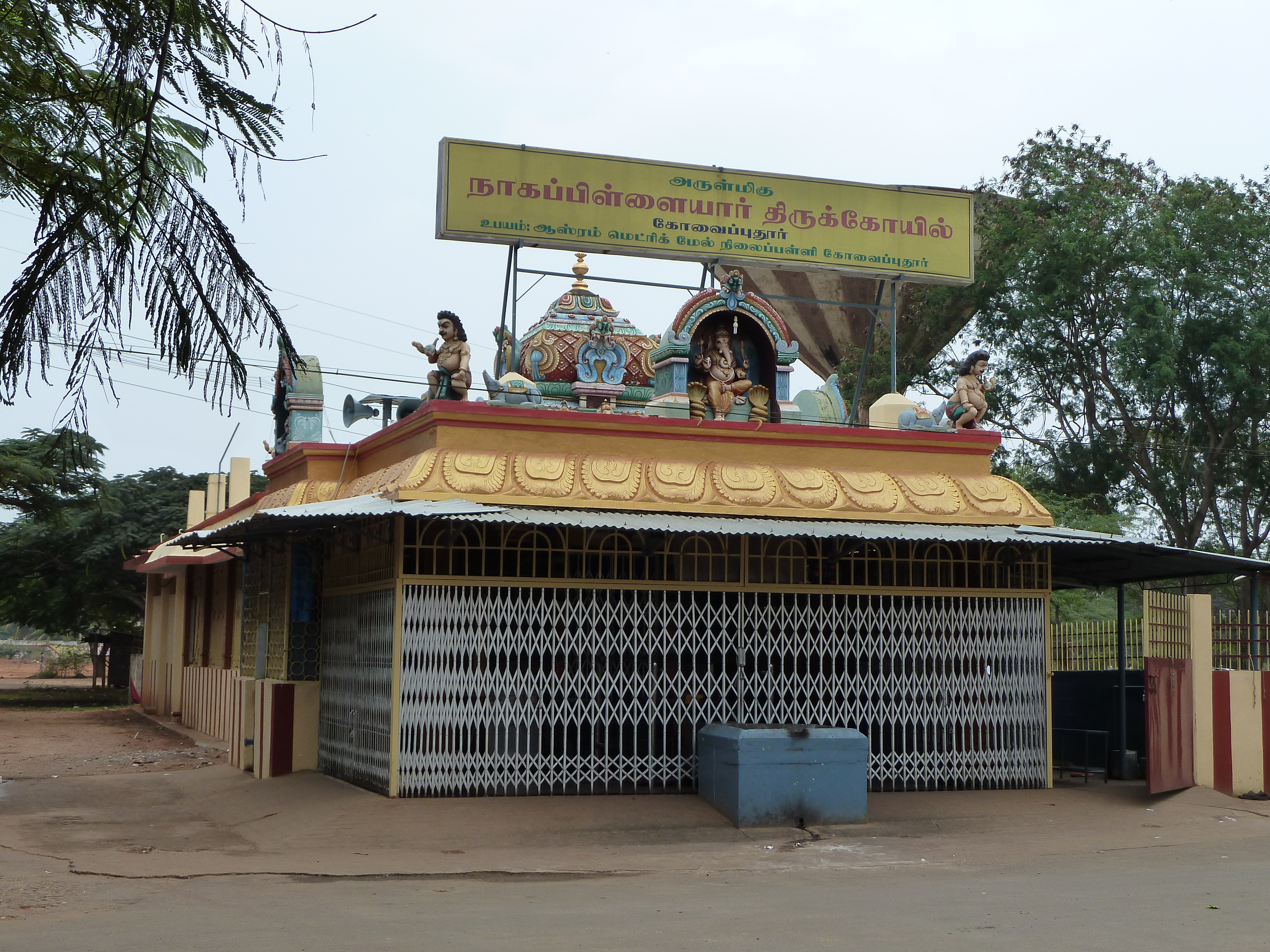 Nagapillayar Kovil (Temple) situated in Kovaipudur, Coimbatore, India.